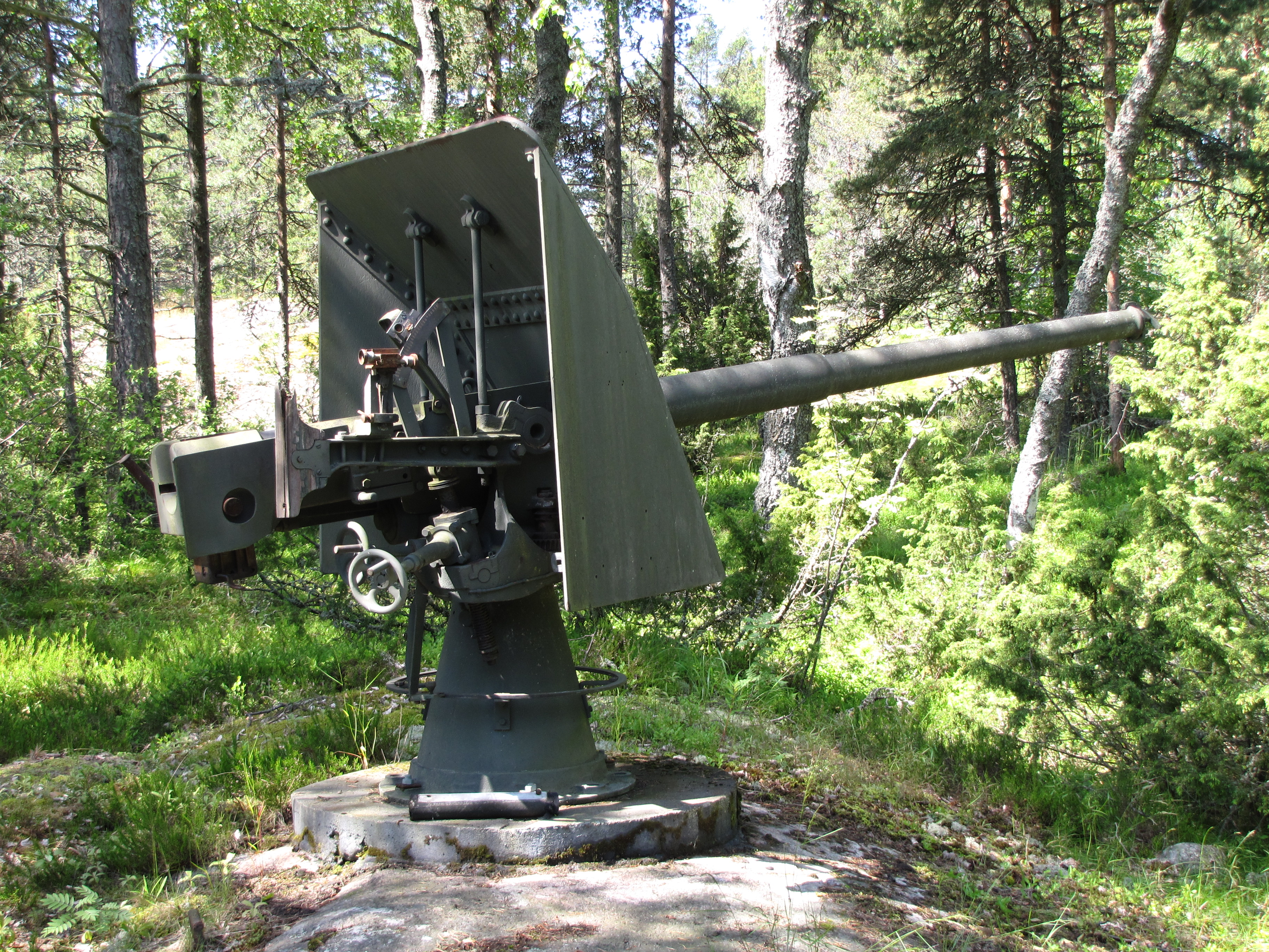 Imperial Russian 57 mm 58 caliber Hotchkiss coastal gun in Kuivasaari island.